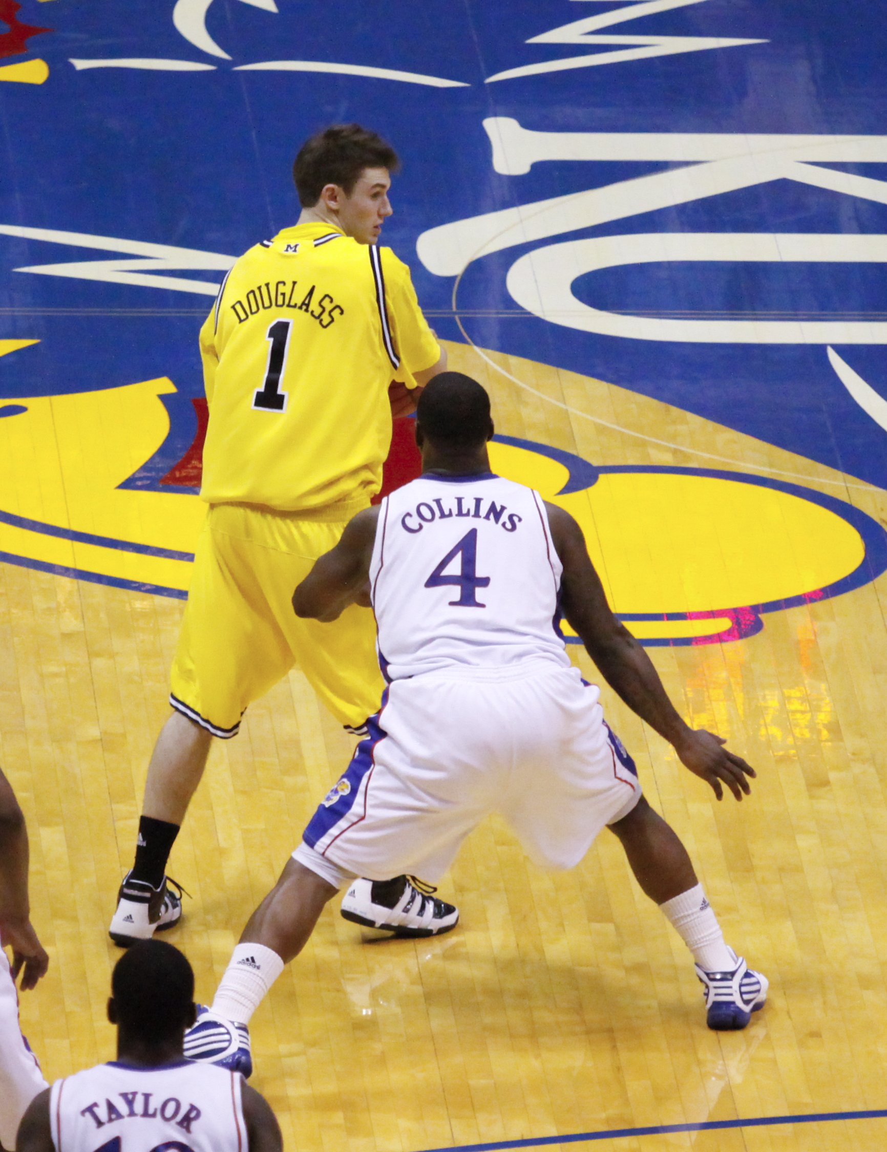 Stu Douglass of the 2009–10 Michigan Wolverines men's basketball team guarded by Sherron Collins